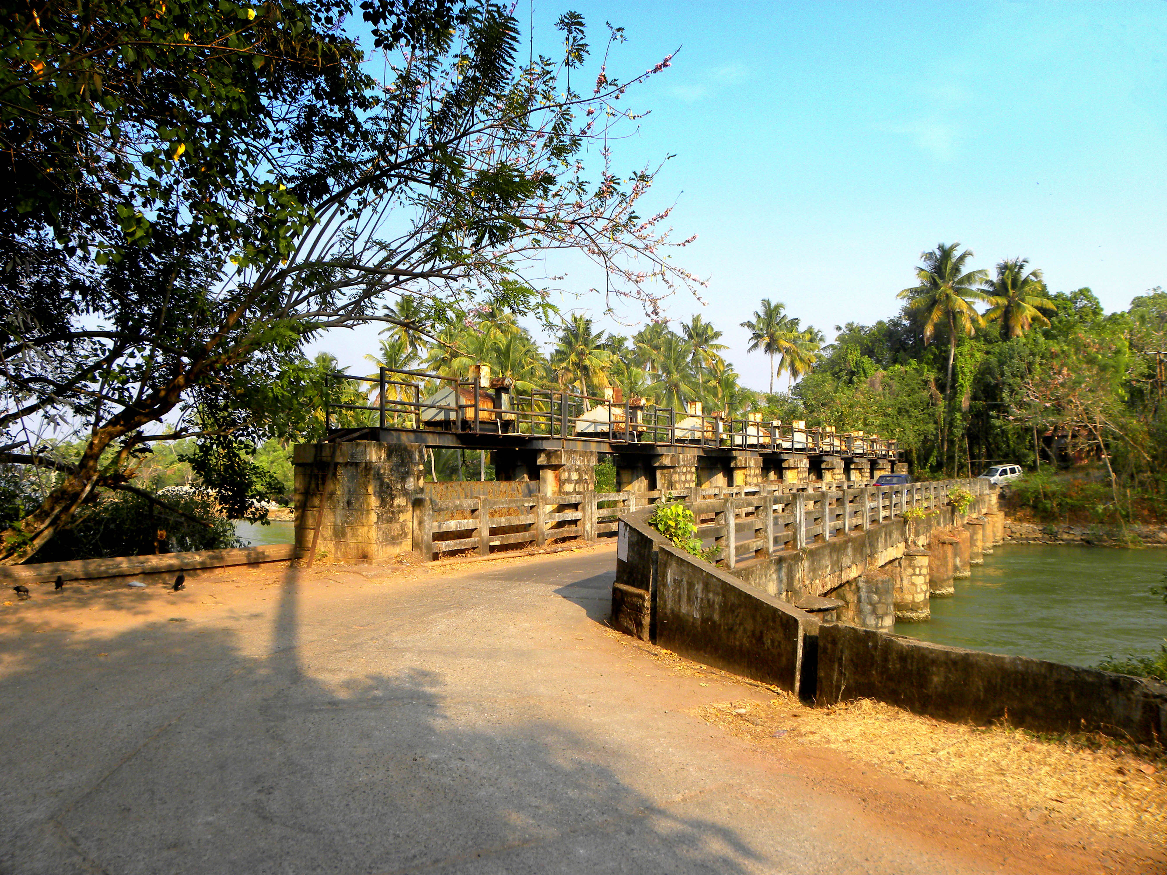 The artificial tidal-regulator in the spillway bridge at Pozhikara estuarine area, constructed in 1957 to control the salt water intrusion into Paravur Lake.